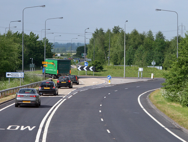 Market Weighton Roundabout, Market Weighton, East Riding of Yorkshire, England.Approaching from Beverley.